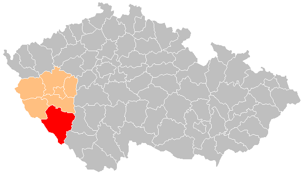 Klatovy District within Plzen Region. Current borders of districts since January 1, 2007.